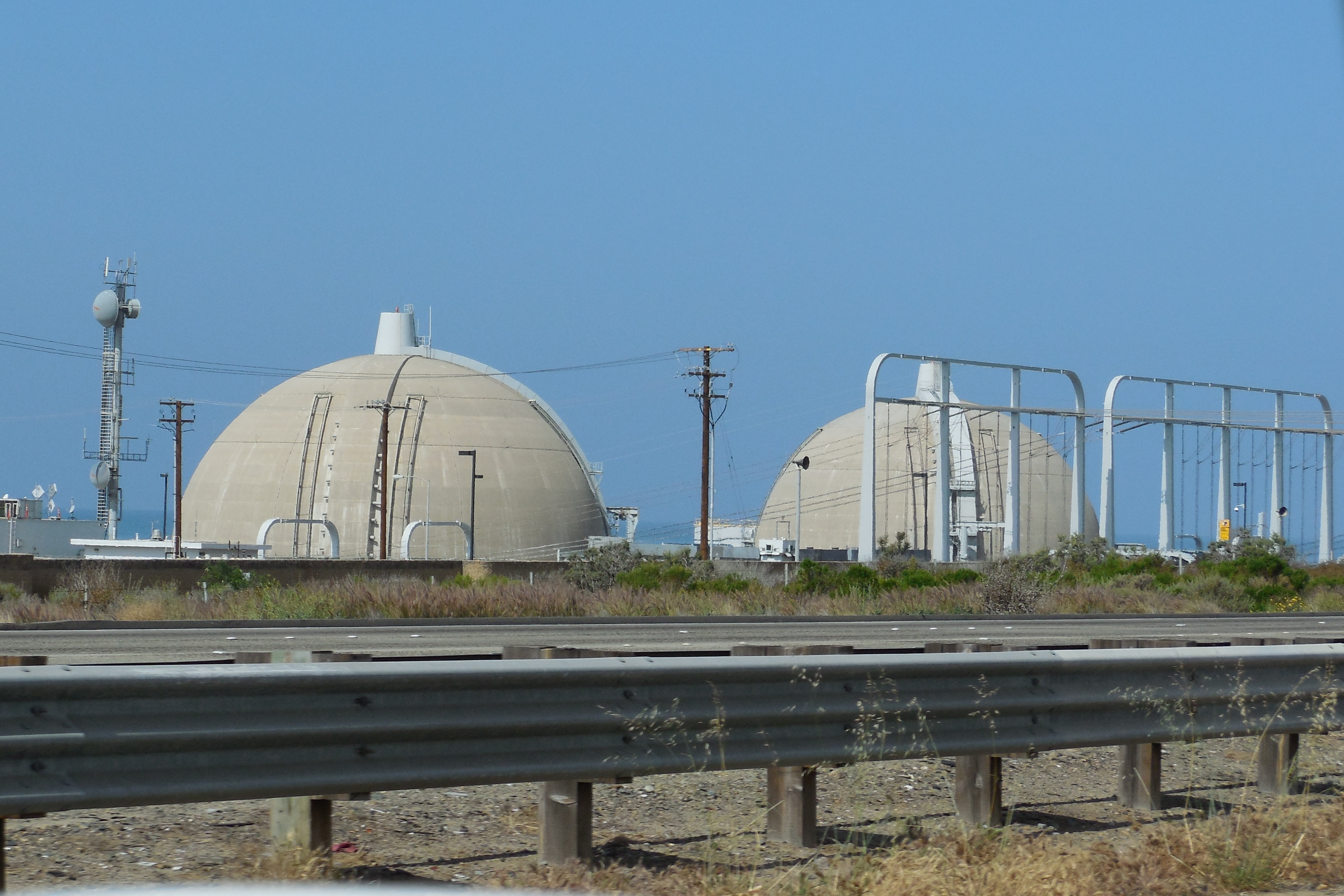 San Onofre Nuclear Generating Station as seen from Interstate 5 northbound, April 1, 2015.